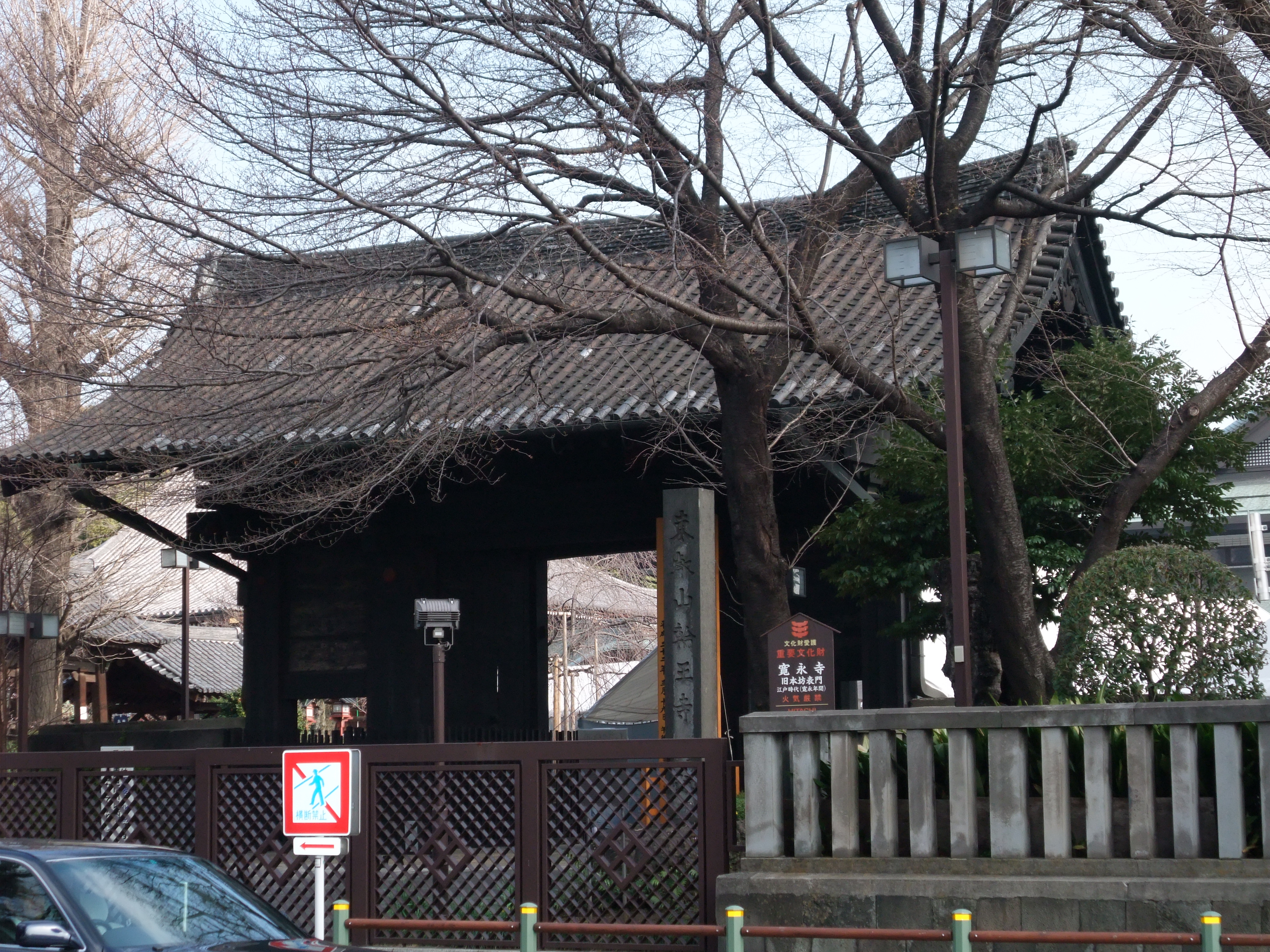 Kuro-mon (Black gate) (Japan's national important cultural property), Rinnō-ji, Taitō-ku, Tokyo, Japan